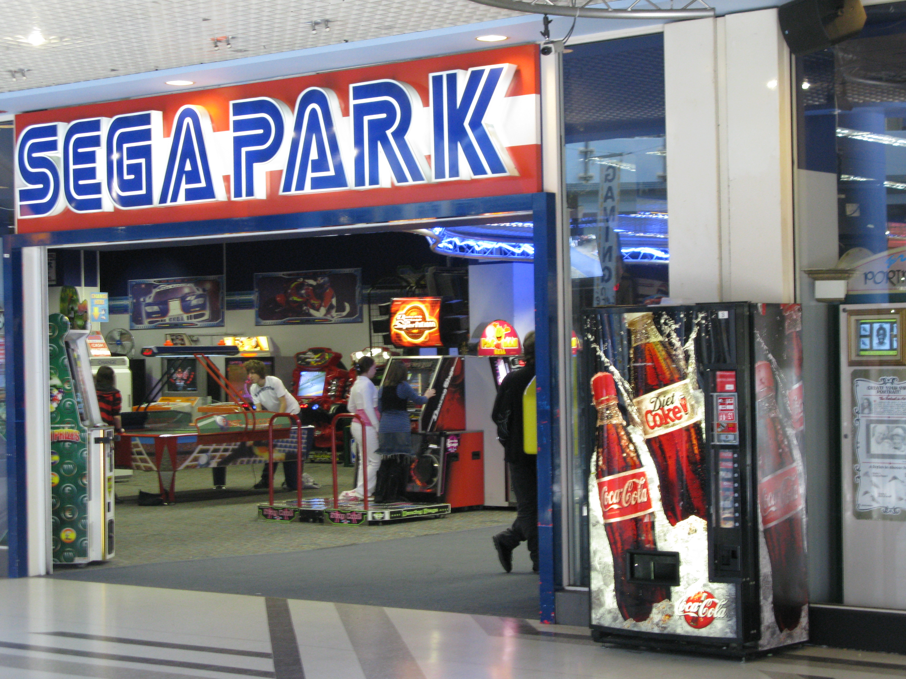 Sega Park amusement arcade in the Bargate Centre, Southampton, uk on February 20, 2009